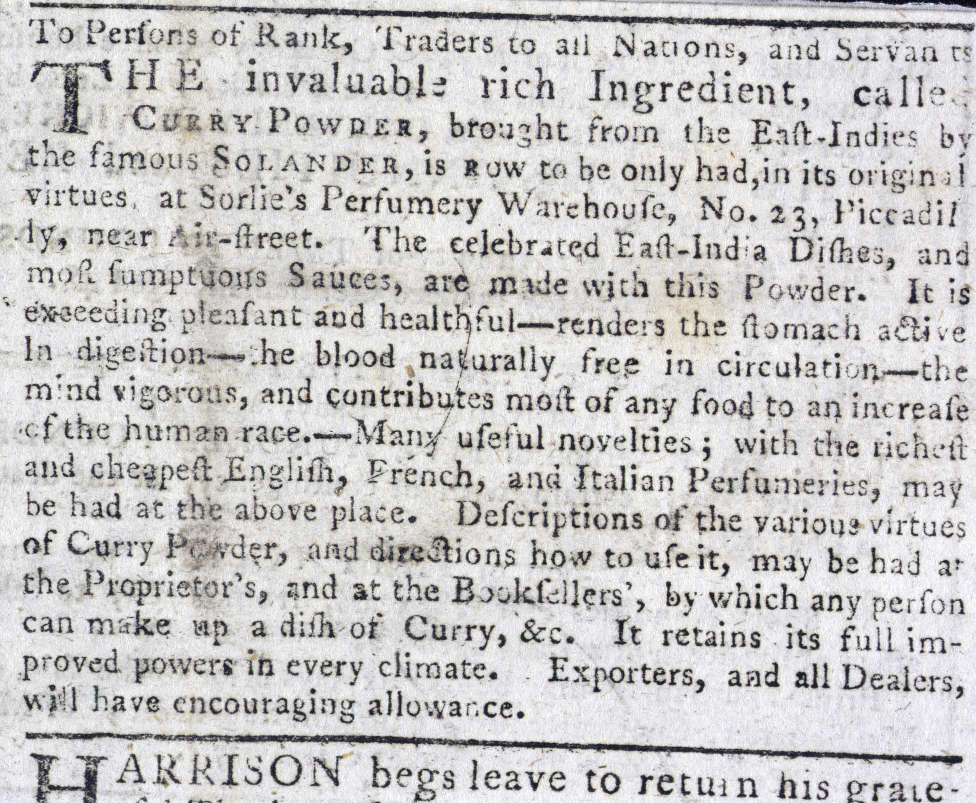 First British advert for Curry Powder